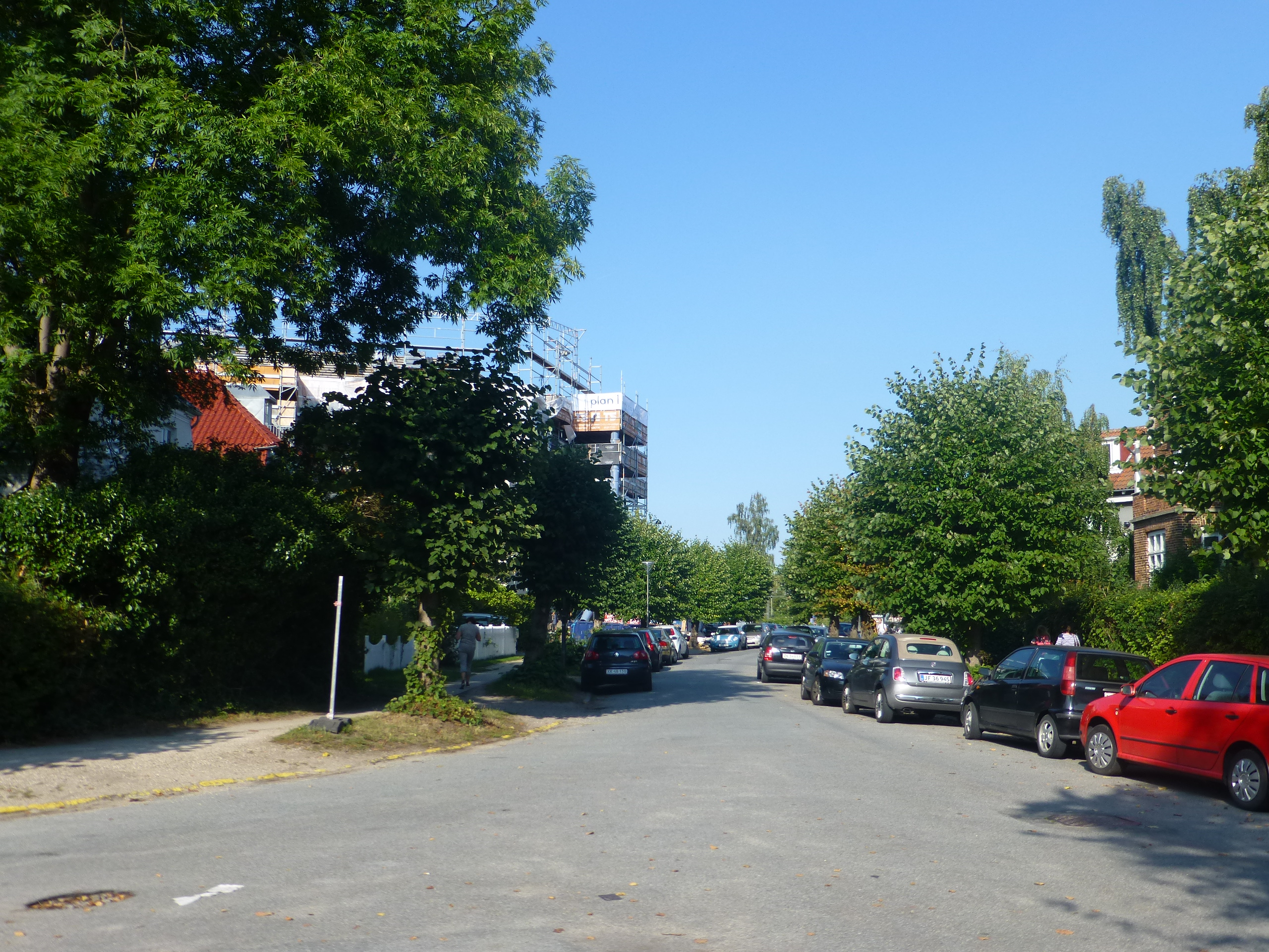 The street Esthersvej in Hellerup in Copenhagen.